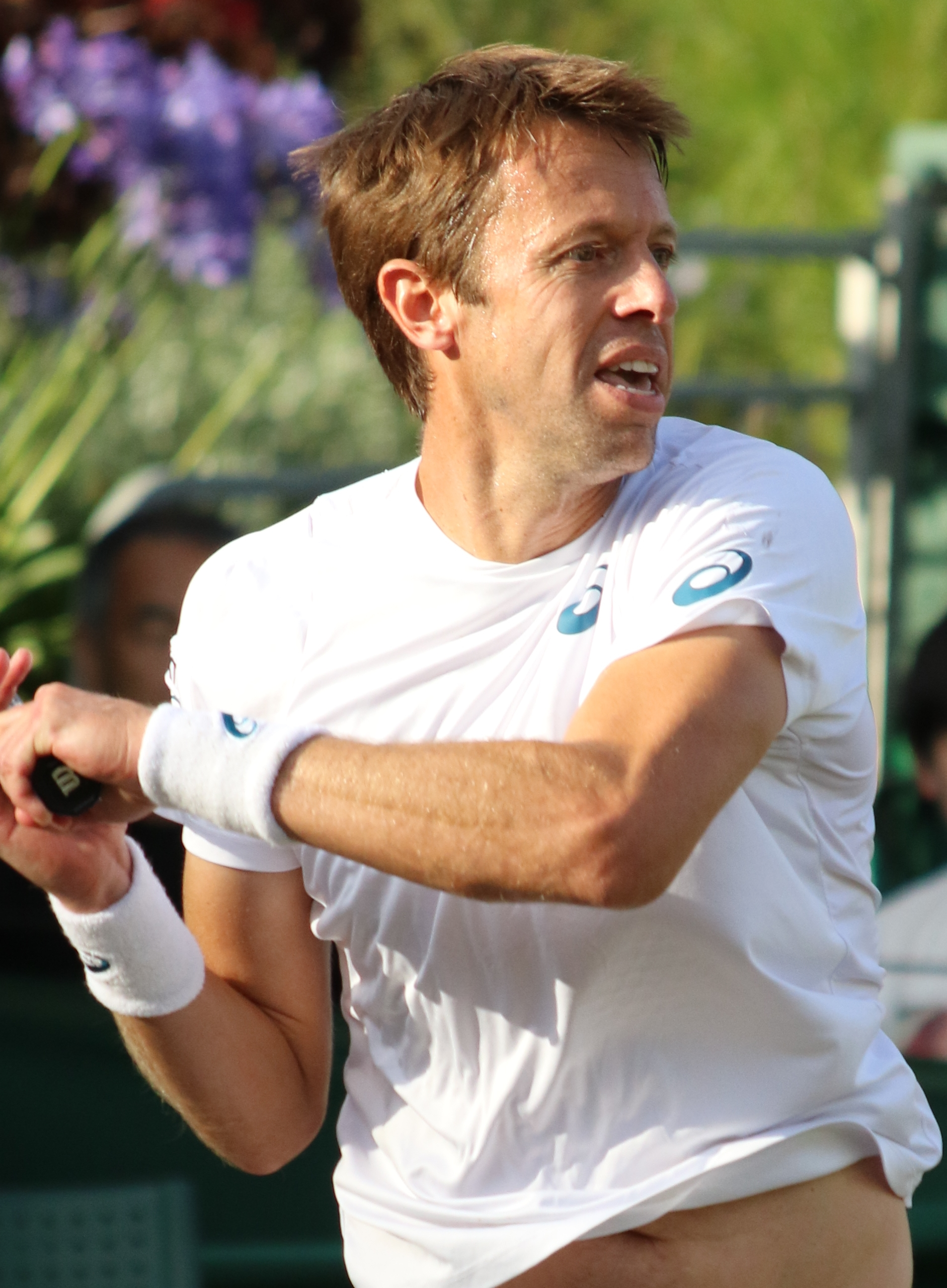 Nestor WM17 (6)